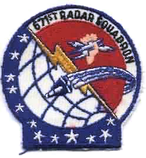 Emblem of the 671st Radar Squadron